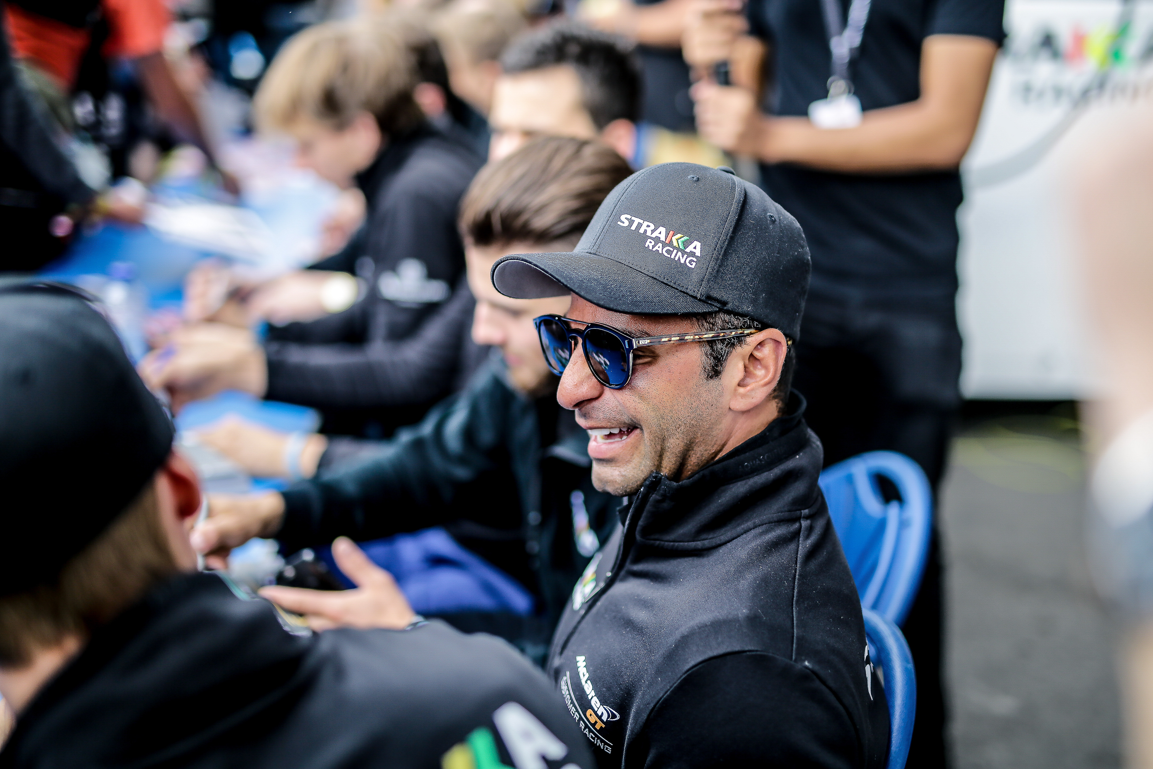 Nick Leventis - Spa-Francorchamps 2017